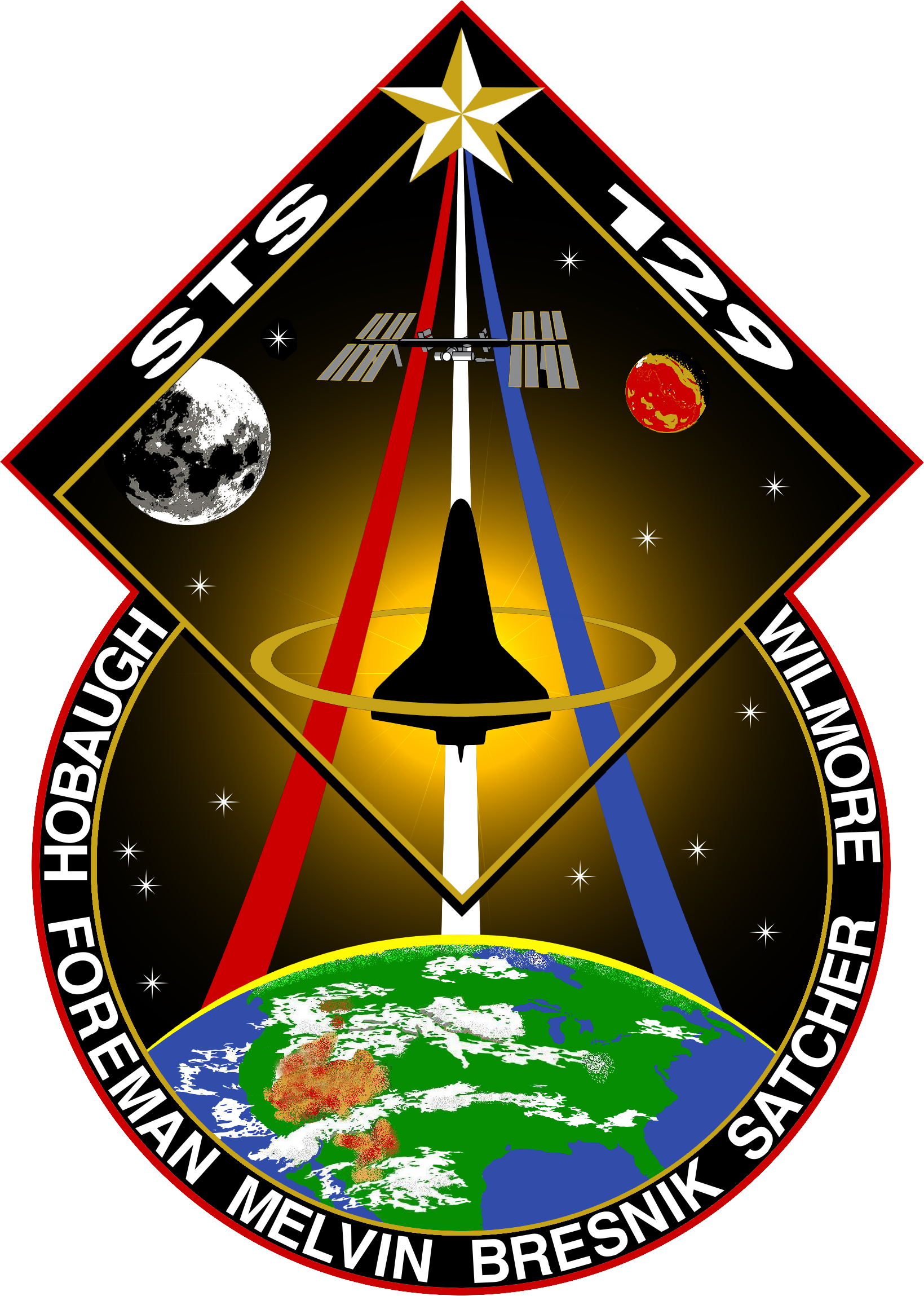 For STS-129 the sun shines brightly on the International Space Station (ISS) above and the United States below representing the bright future of U.S. human spaceflight. The contiguous U.S., Rocky Mountains, and Great Desert Southwest are clearly visible on the earth below encompassing all the NASA centers and the homes of the many dedicated people that work to make our Space Program possible. The integrated shapes of the patch signifying the two Express Logistics Carriers that will be delivered by STS-129 providing valuable equipment ensuring the longevity of the ISS. The Space Shuttle is vividly silhouetted by the sun highlighting how brightly the Orbiters have performed as a workhorse for the U.S. Space Program over the past 3 decades. The Space Shuttle ascends on the Astronaut symbol portrayed by the Red, White and Blue swoosh bounded by the gold halo. This symbol is worn with pride by this U.S. crew representing their country on STS-129. The names of the crew members are denoted on the outer band of the patch. As STS-129 launches, the Space Shuttle is in its twilight years. This fact is juxtaposed by the 13 stars on the patch which are symbolic of our children who are the future. The Moon and Mars feature predominantly to represent just how close humankind is to reaching further exploration of those heavenly bodies and how the current Space Shuttle and ISS missions are laying the essential ground work for those future endeavors.